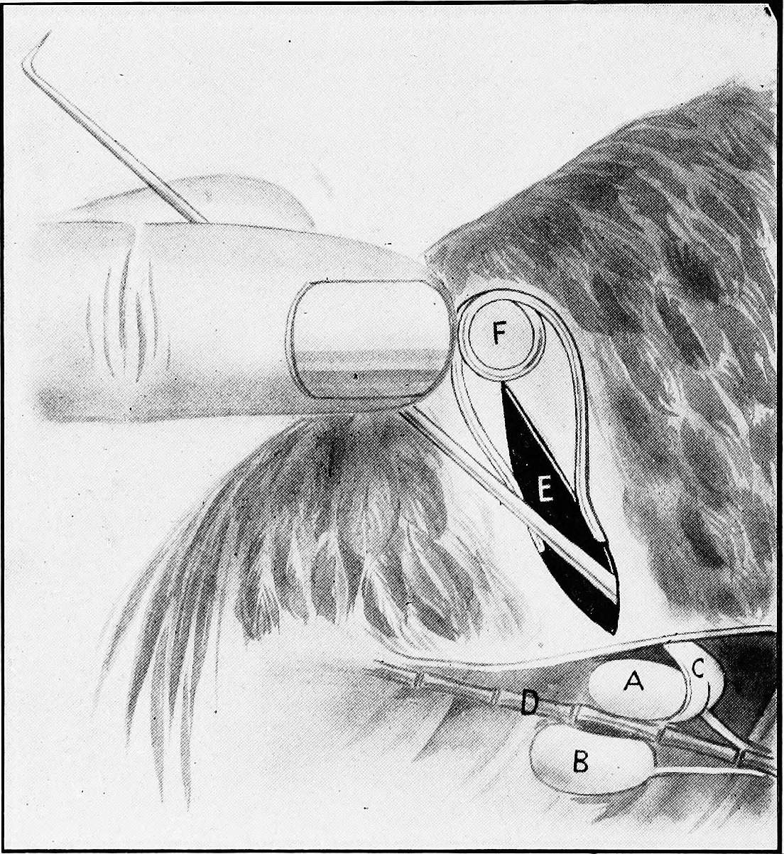 Title: Animal castration : a book for the use of students and practitioners Year: 1920 (1920s) Authors: White, George Ransom, 1874- Subjects: Castration Publisher: Chicago : American Veterinary Pub. Co. Text Appearing Before Image: 138 ANIMAL CASTRATION 3. Appliances for removing the testicle (Figs. 120, 121, 122.) Some of the best of each of these are illustrated below. The operator should make his own selection. The author's preference is the "Farmer" Miles set. Anatomy—The testicles are situated in the abdominal cavity. They are small, bean-shaped, soft, very friable and light colored. Their location is on each side of the vertebral colnmn immediately behind the lungs and in Text Appearing After Image: Fig. 124—Diagrammatic llUistration showing position of testicles of the fowl and the method of removal. A, Right testicle; B, left testicle; C, scoop applied to the spermatic cord; D, vertebral column; E, incision in last intercostal space; F, spreader. front of the kidneys. Hee Figure 123. They are opposite the last inter- costal space. Above them is the aorta and vena cava. Preparation—The most essential step connected with caponizing is to have the fowls entirelj' empty at the time of operating. This is accom- plished by withholding food and water for thirty hours. Never attempt to operate upon a full chicken unless you are looking for trouble. Operative Technic—Unless a satisfactory artificial light is available, the